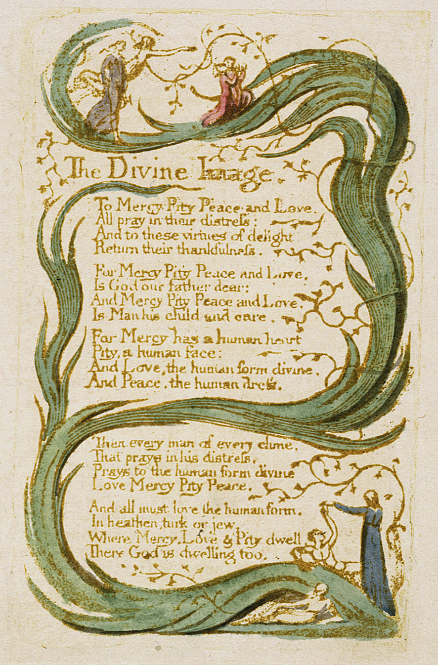 Songs of Innocence, copy G, object 12 (Bentley 18, Erdman 18, Keynes 18) "The Divine Image"